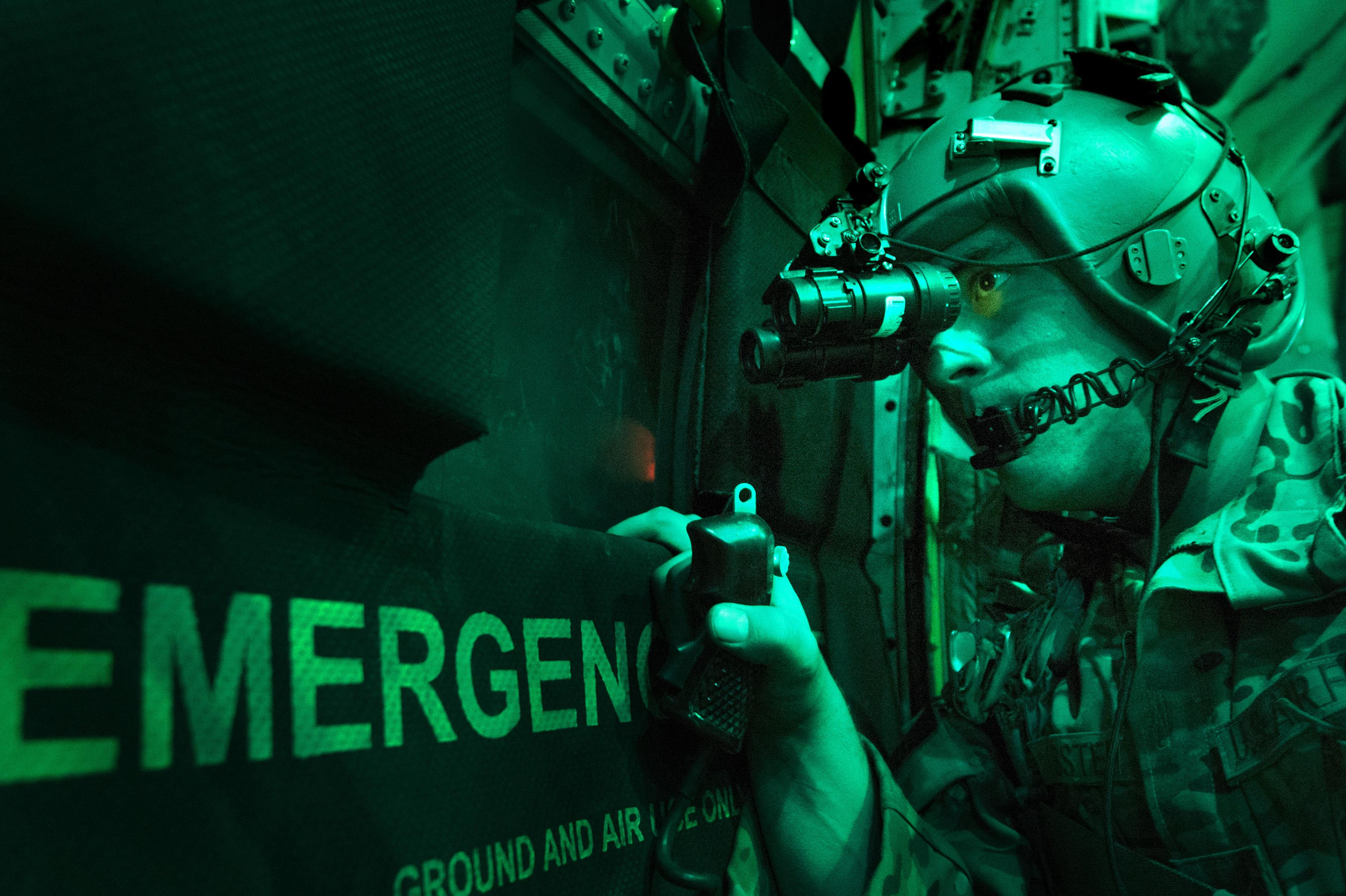 Senior Airman Larry Webster scans for potential threats using night vision goggles after completing a cargo airdrop Oct. 7, 2013, in Ghazni Province, Afghanistan. Webster is a 774th Expeditionary Airlift Squadron loadmaster. (U.S. Air Force photo by Master Sgt. Ben Bloker)